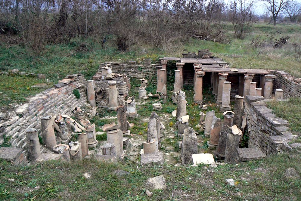 Dzalisi ruins